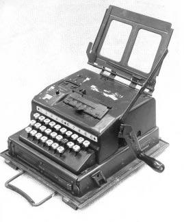 Full text at